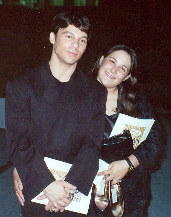 Ricki Lake with Steve Antin at the APLA benefit, 9/7/90 - Permission granted to copy, publish, broadcast or post but please credit "photo by Alan Light" if you can